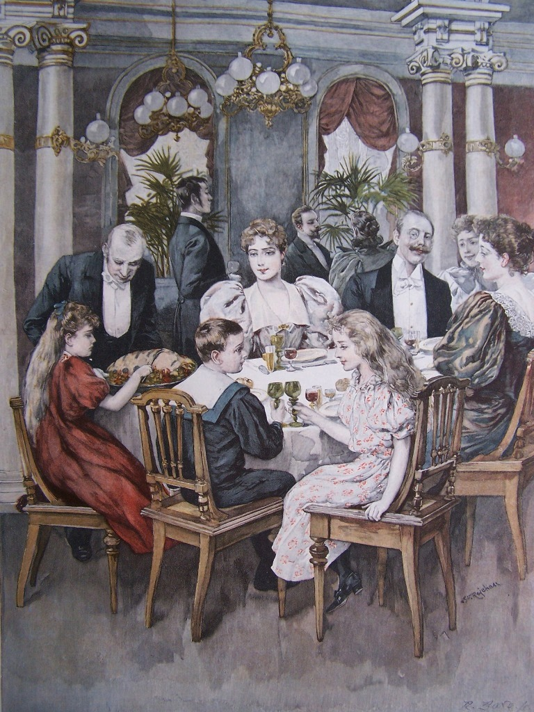 Stanislaw Reichan. WEIHNACHTS-DINER. 1896